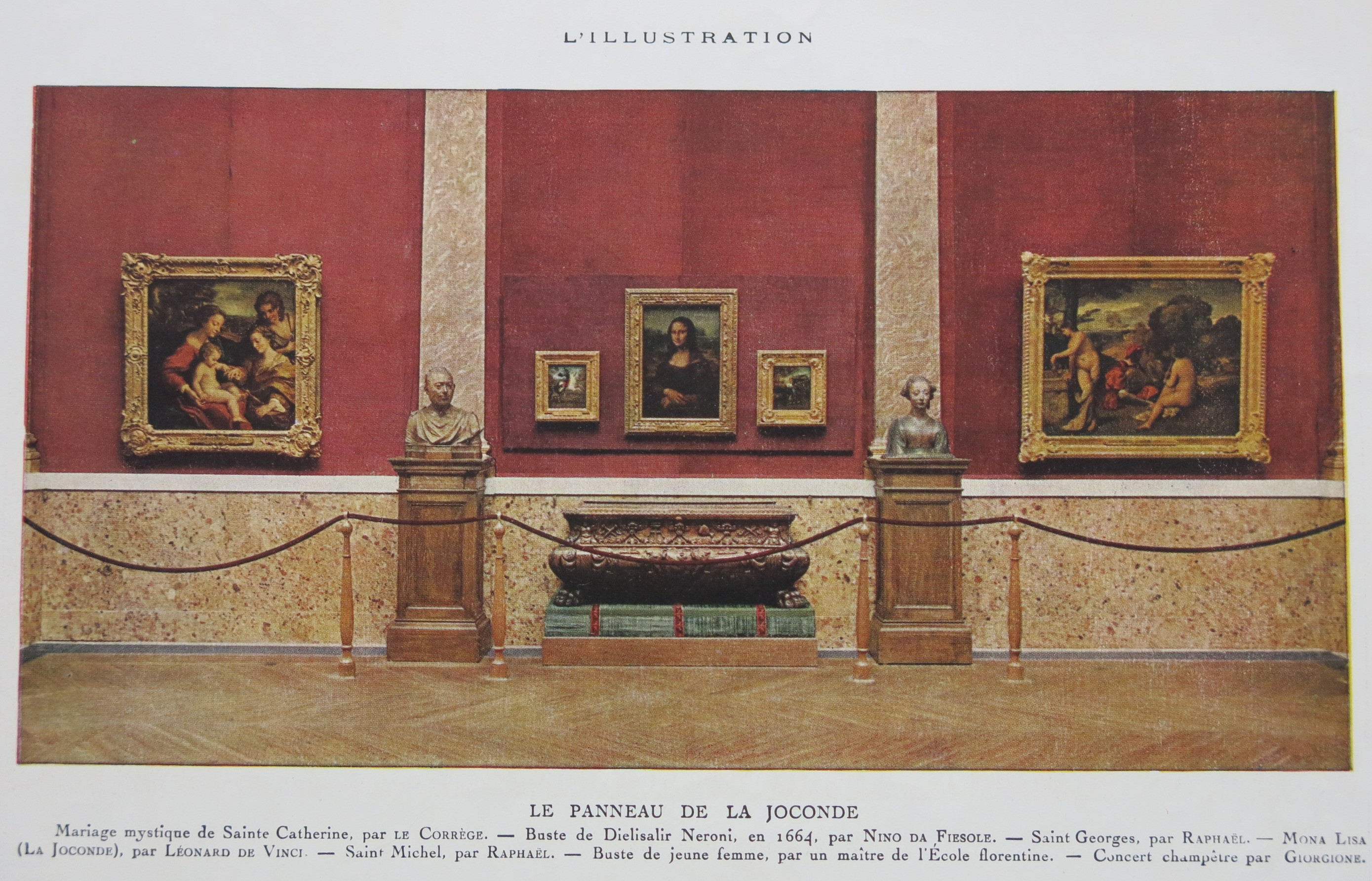 Mona Lisa in Louvre museum in 1929.